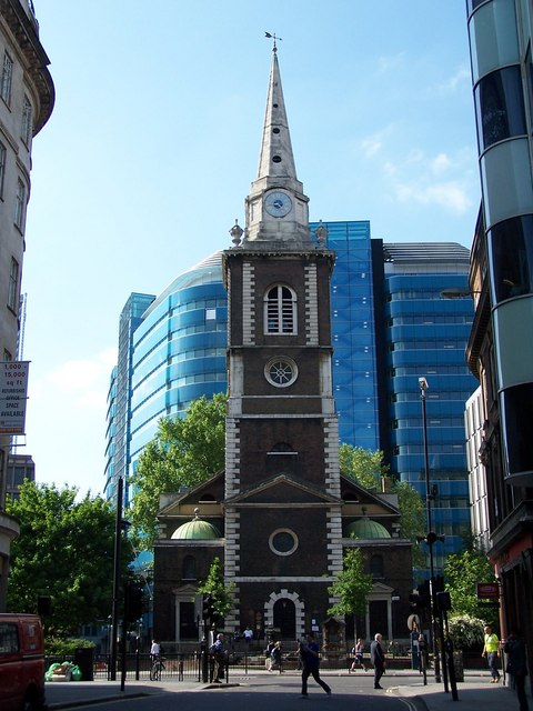 St Botolph, Aldgate, near to Shoreditch, Islington, Great Britain.